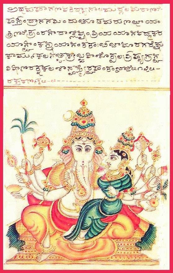 Depiction of the Mahāganapati form of Ganesha, with a shakti. Upper area shows a description of the form as a meditation verse written in Kannada script. Reproduction from the Śrītattvanidhi ("The Illustrious Treasure of Realities"), an iconographic treatise compiled in the 19th century in Karnataka, India, by order of the then Maharaja of Mysore, Krishnaraja Wodeyar III (b. 1794 - d. 1868).